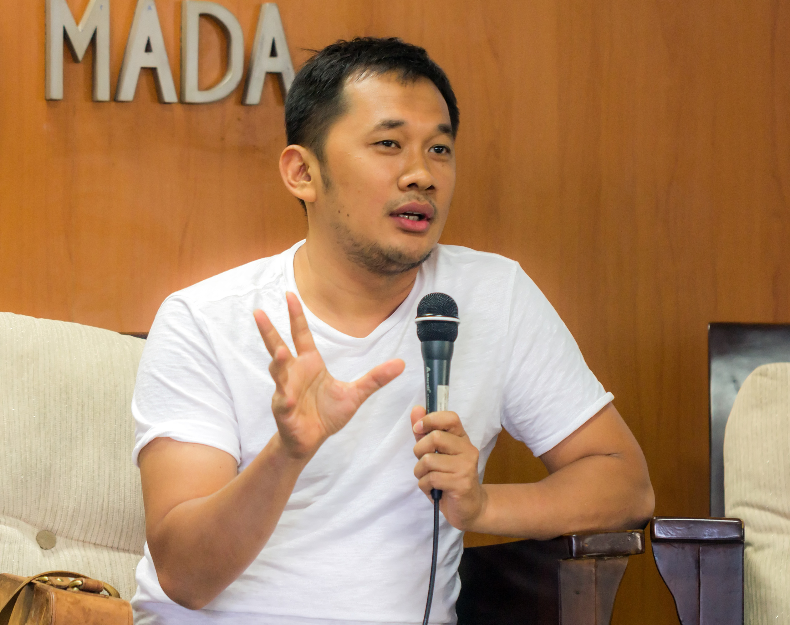 Indonesian film director Hanung Bramantyo speaking at the Jogja-Netpac Asian Film Festival, 2017-12-04